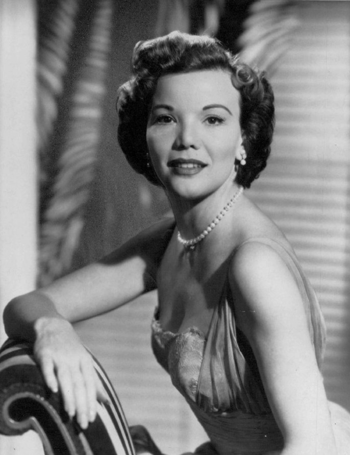 Photo of actress Nanette Fabray.